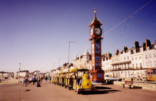 Weymouth Promenade, 1993. Photo by Keith Edkins